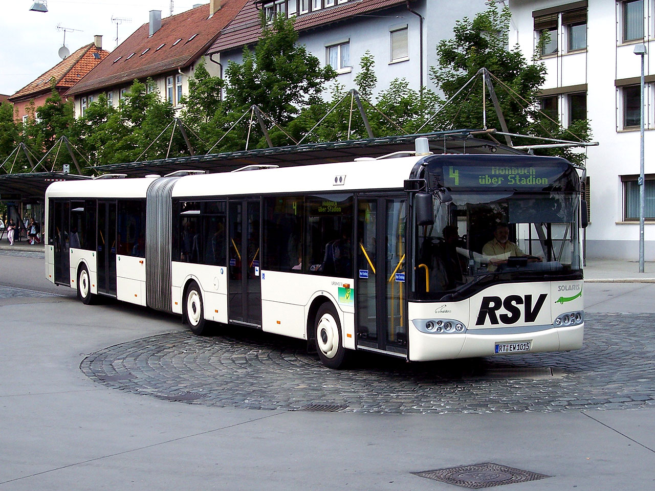 A Solaris Urbino 18 of RSV of Reutlingen arrives at Stadtmitte interchange.